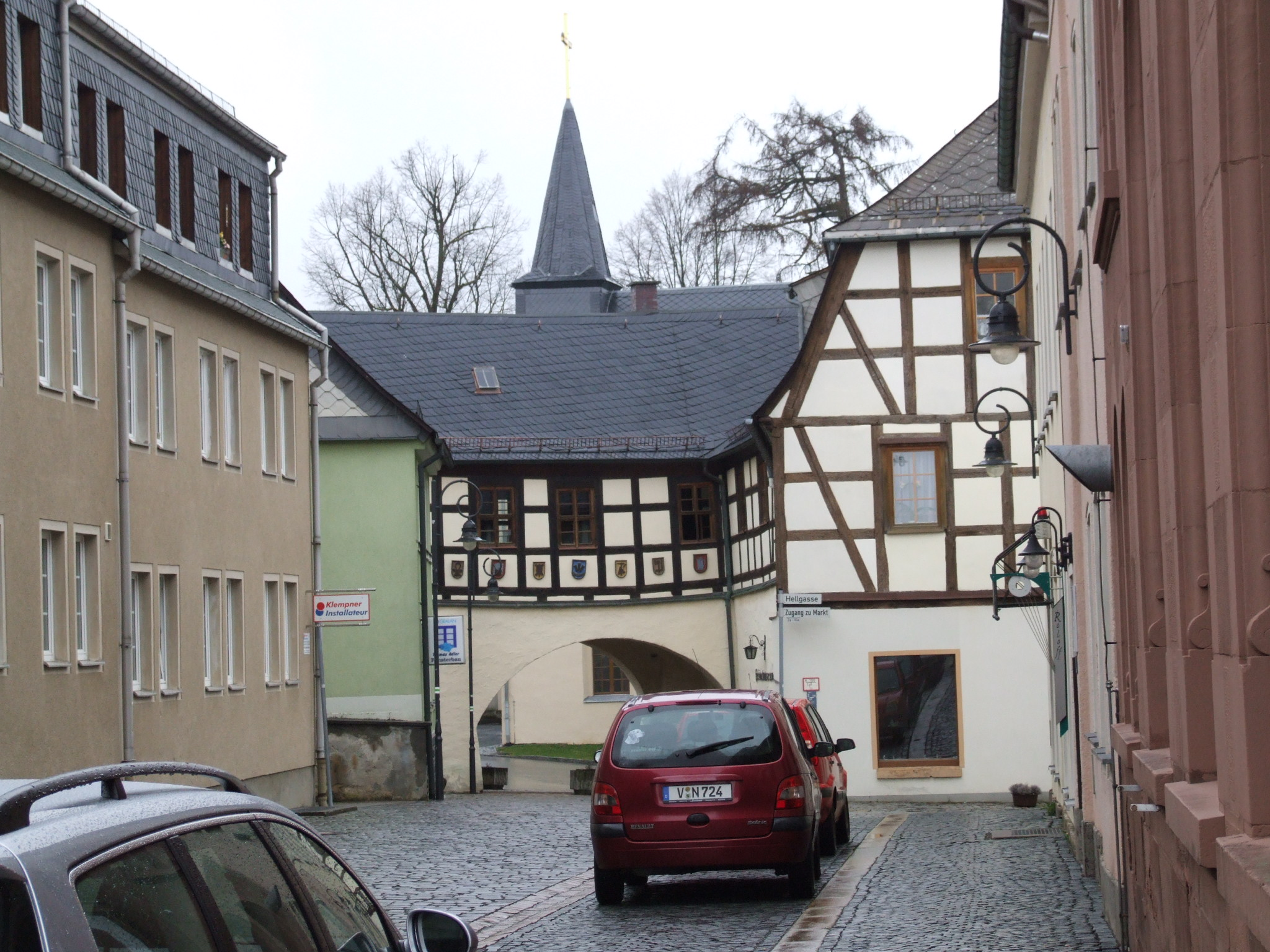 Adorf, in April 2008. Freiburger Tor- restored town gate, Heimat museum with collection of mother-of-pearl